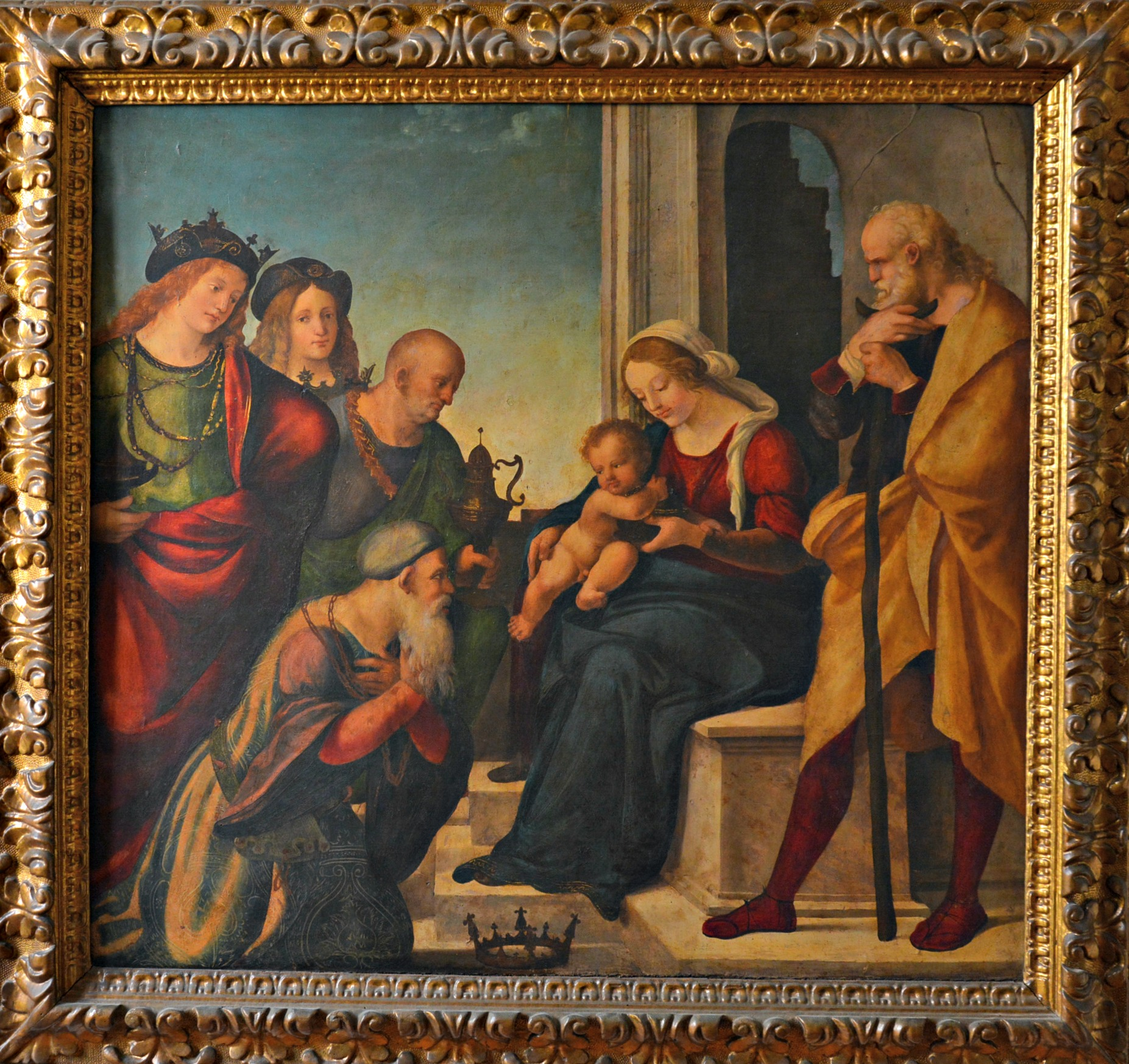 The Adoration of the Magi